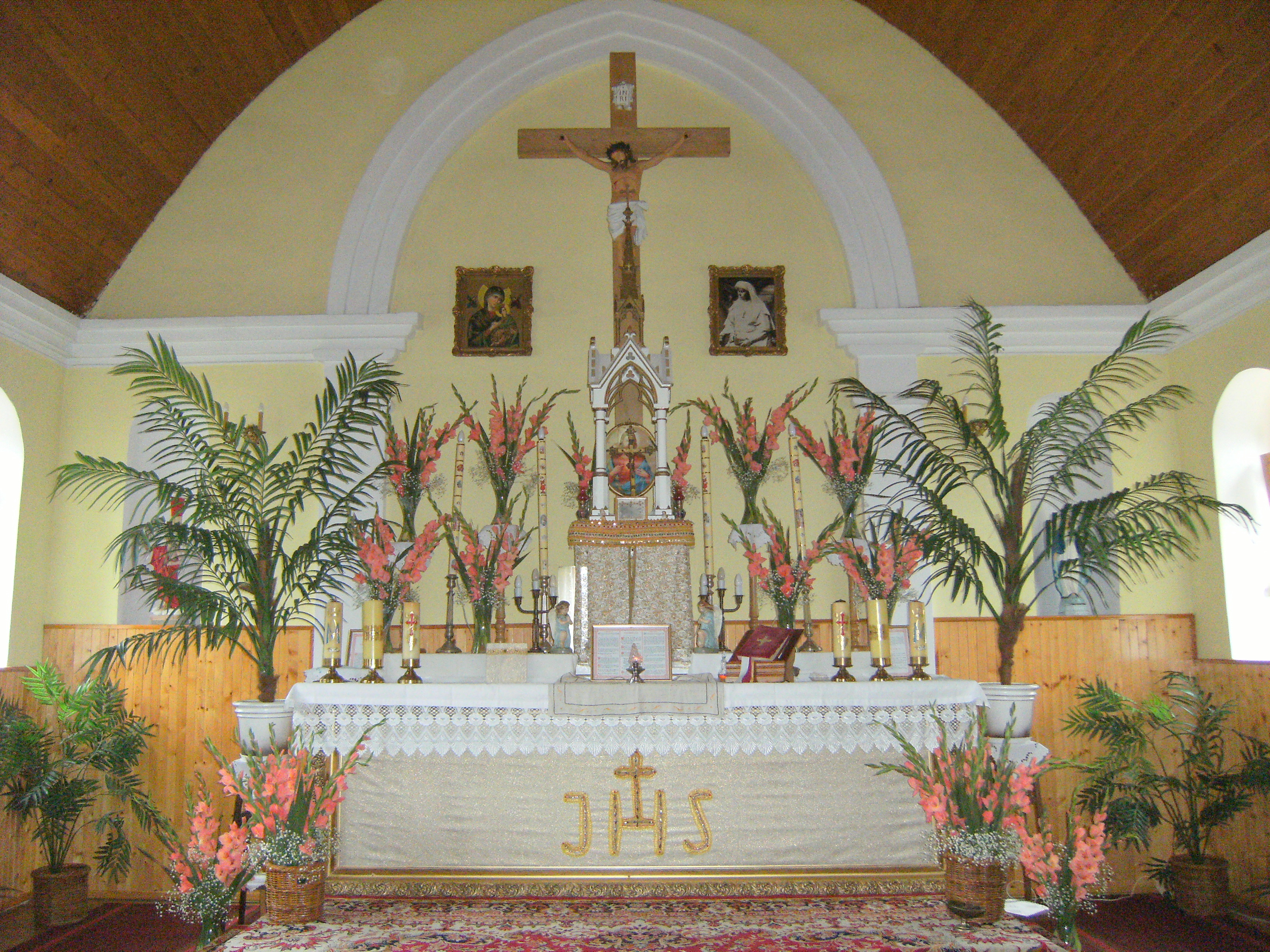 Inside of Mariavite Church in Długa Kościelna